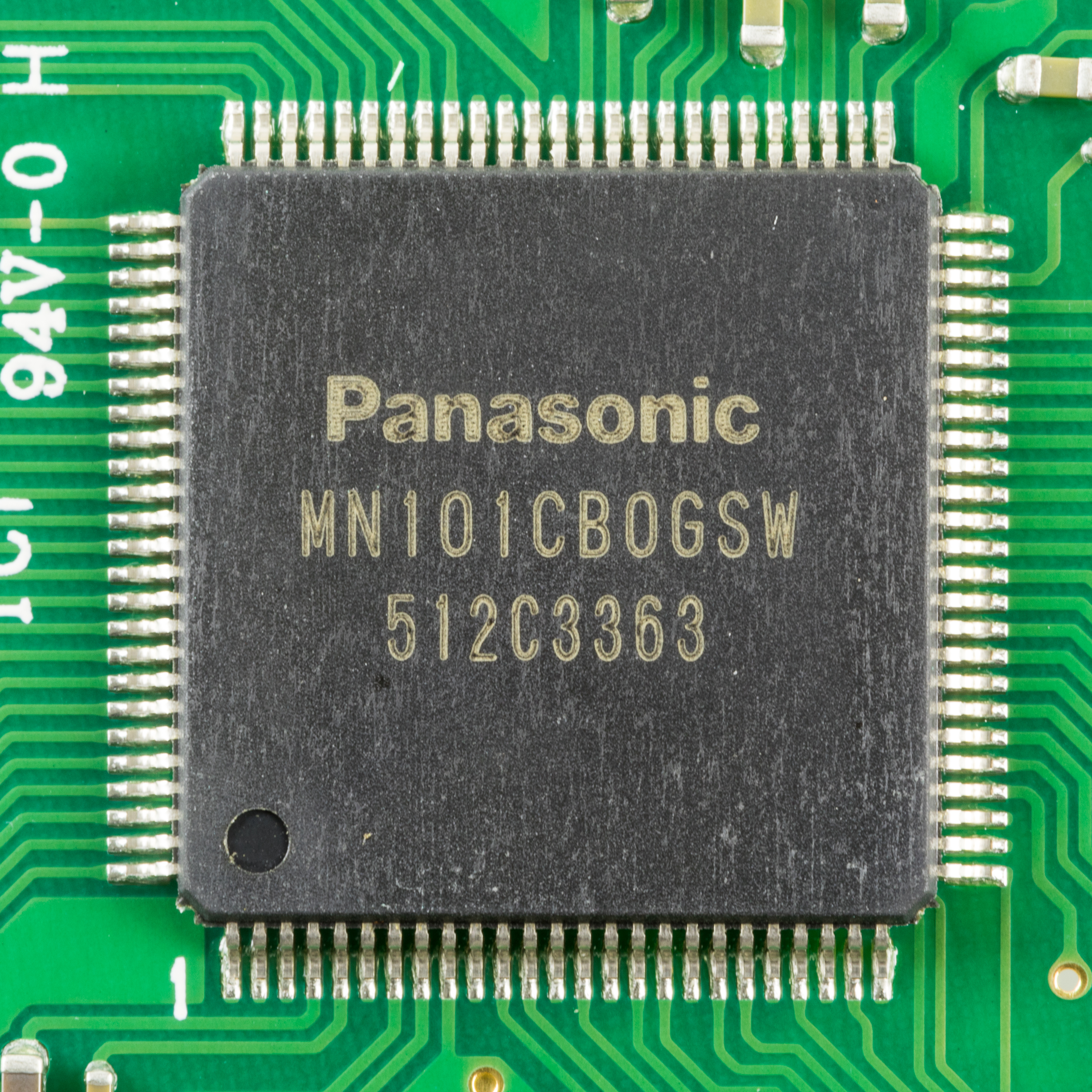 Bayer Contour XT - board - Panasonic MN101CB0GSW (AM1) - 8-bit single-chip microcontroller